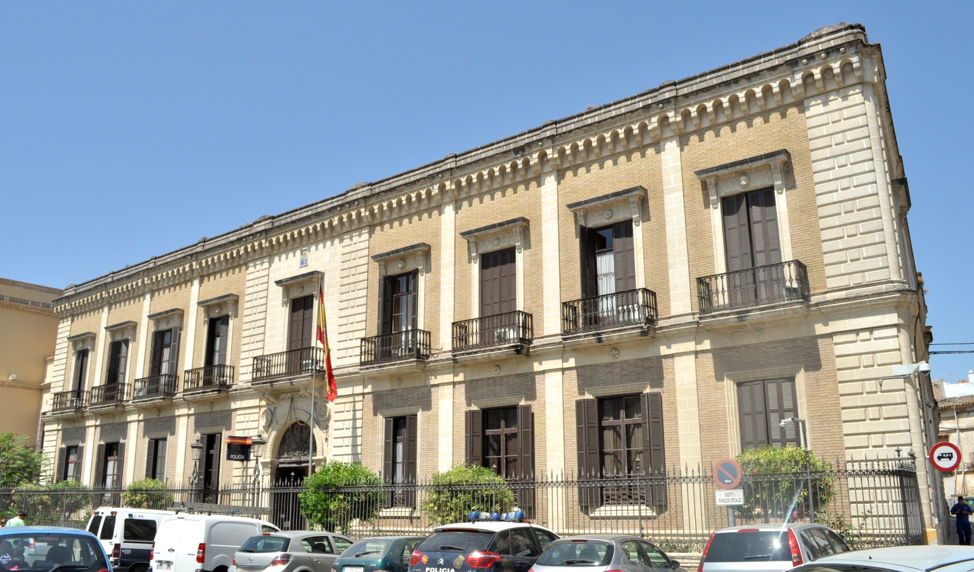 Condes de Puerto Hermoso Palace, Jerez